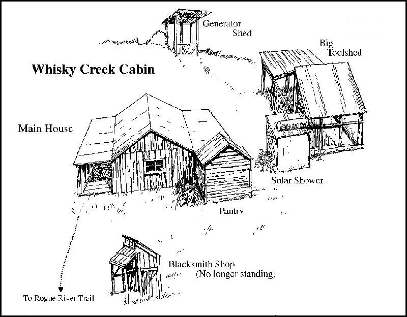 Whisky Creek Cabin Site Map; cabin is located on the north shore of the Rogue River at the mouth of Whisky Creek in Josephine County, Oregon